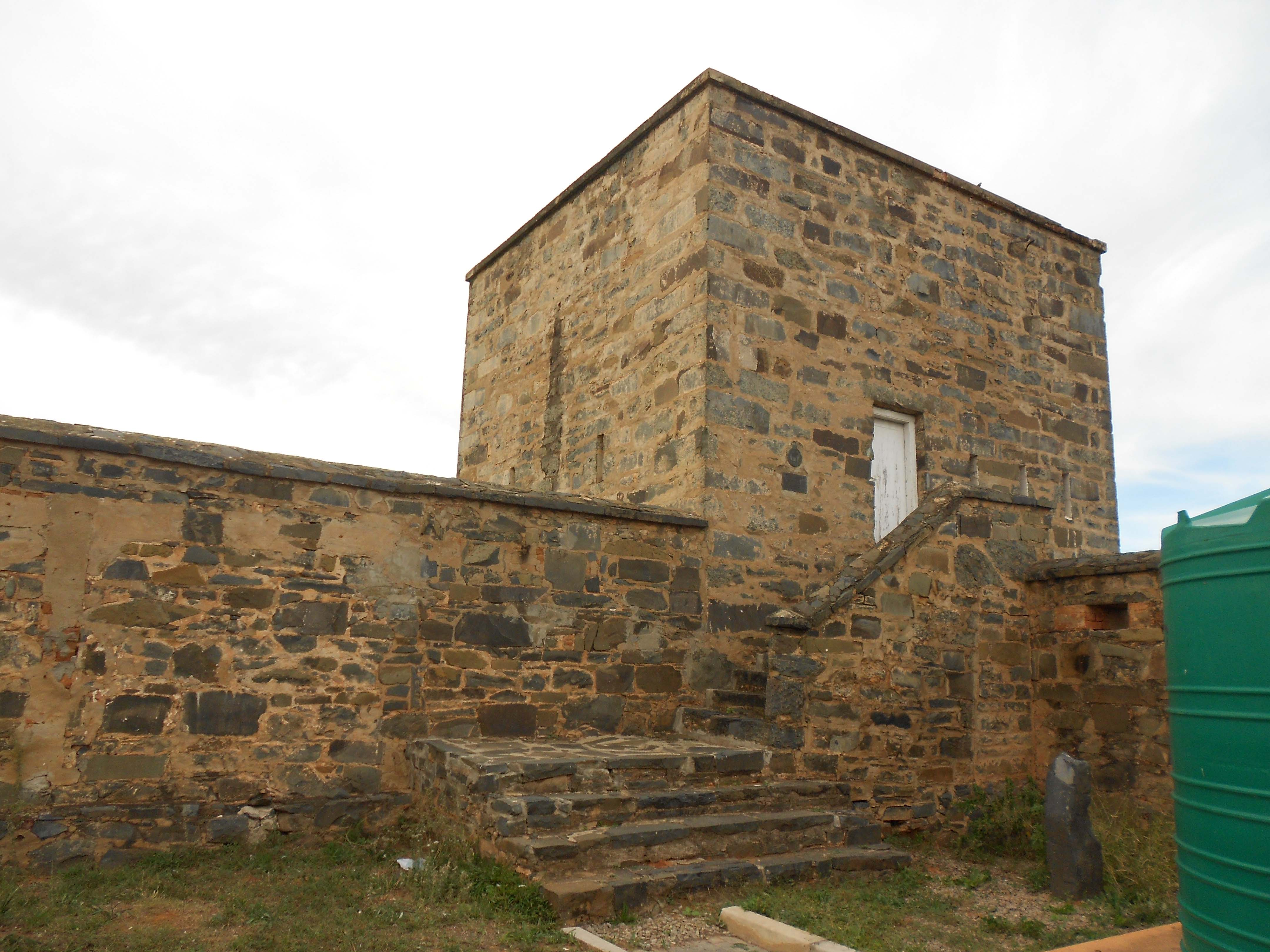 Fort Brown, Albany District, an important Eastern Frontier fortification. This media shows a South African Protected Site with SAHRA file reference 9/2/003/0067.